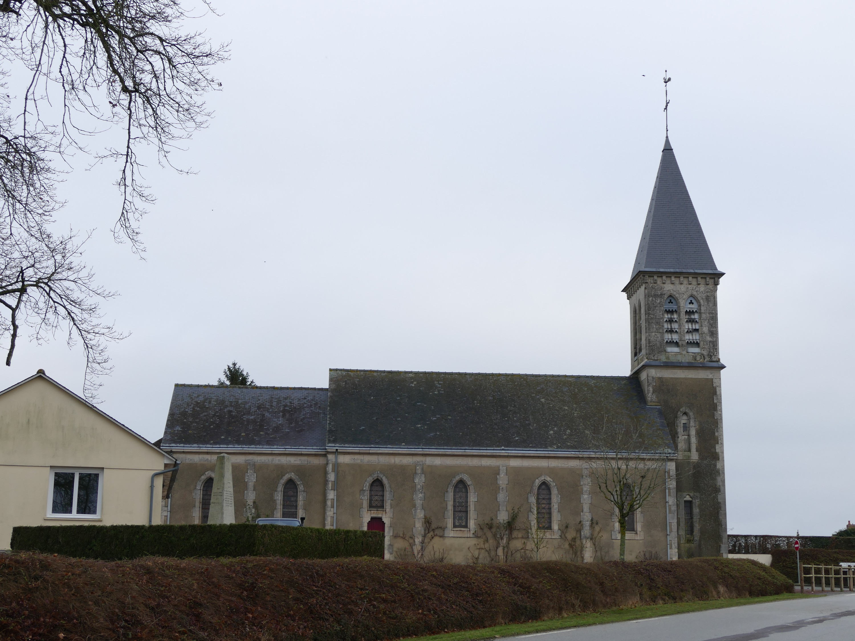 Saint-Martin's church in Ménil-Erreux (Orne, Normandie, France).